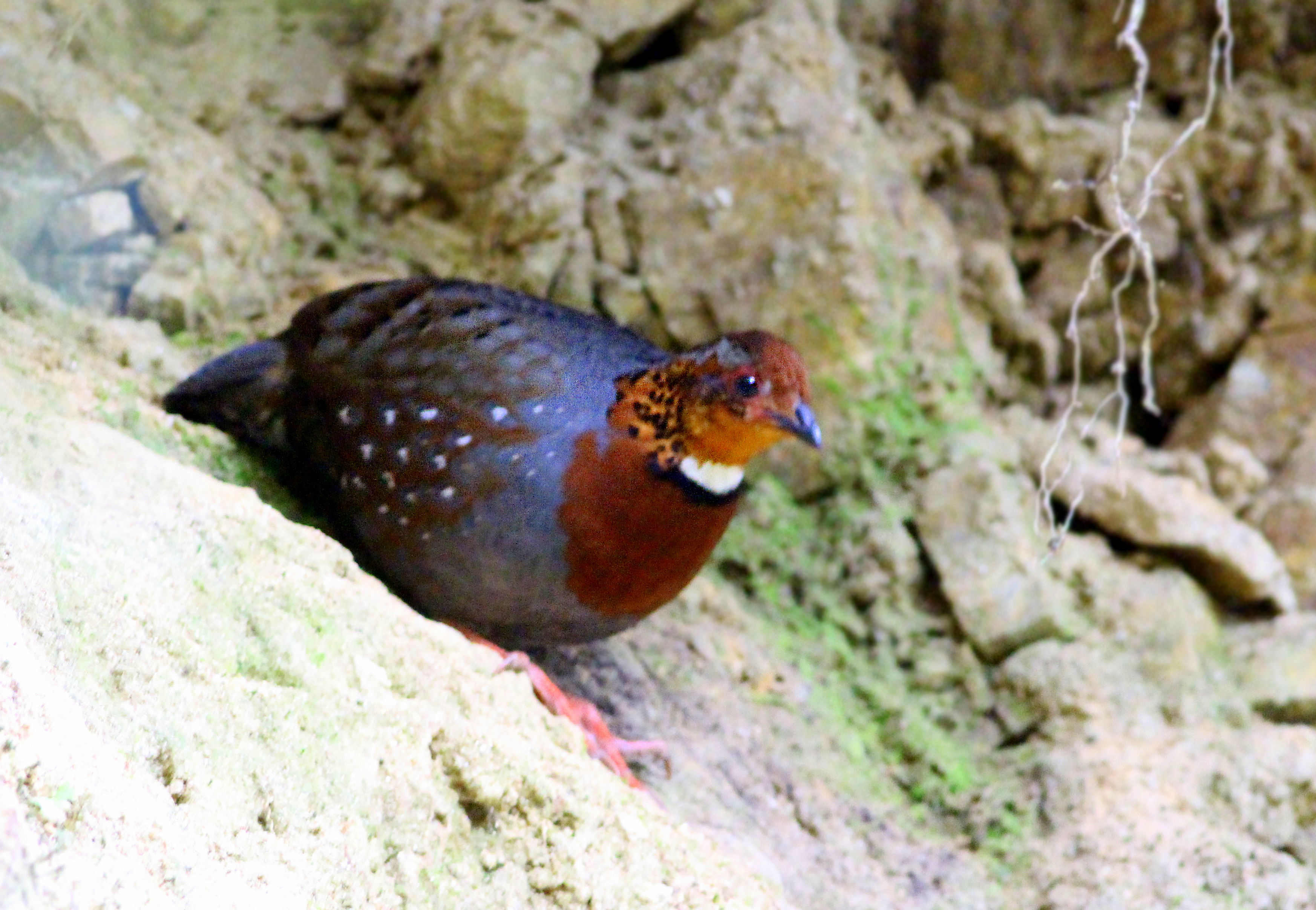 We were lucky to witness this rare beauty in the forest of Lava, West Bengal.